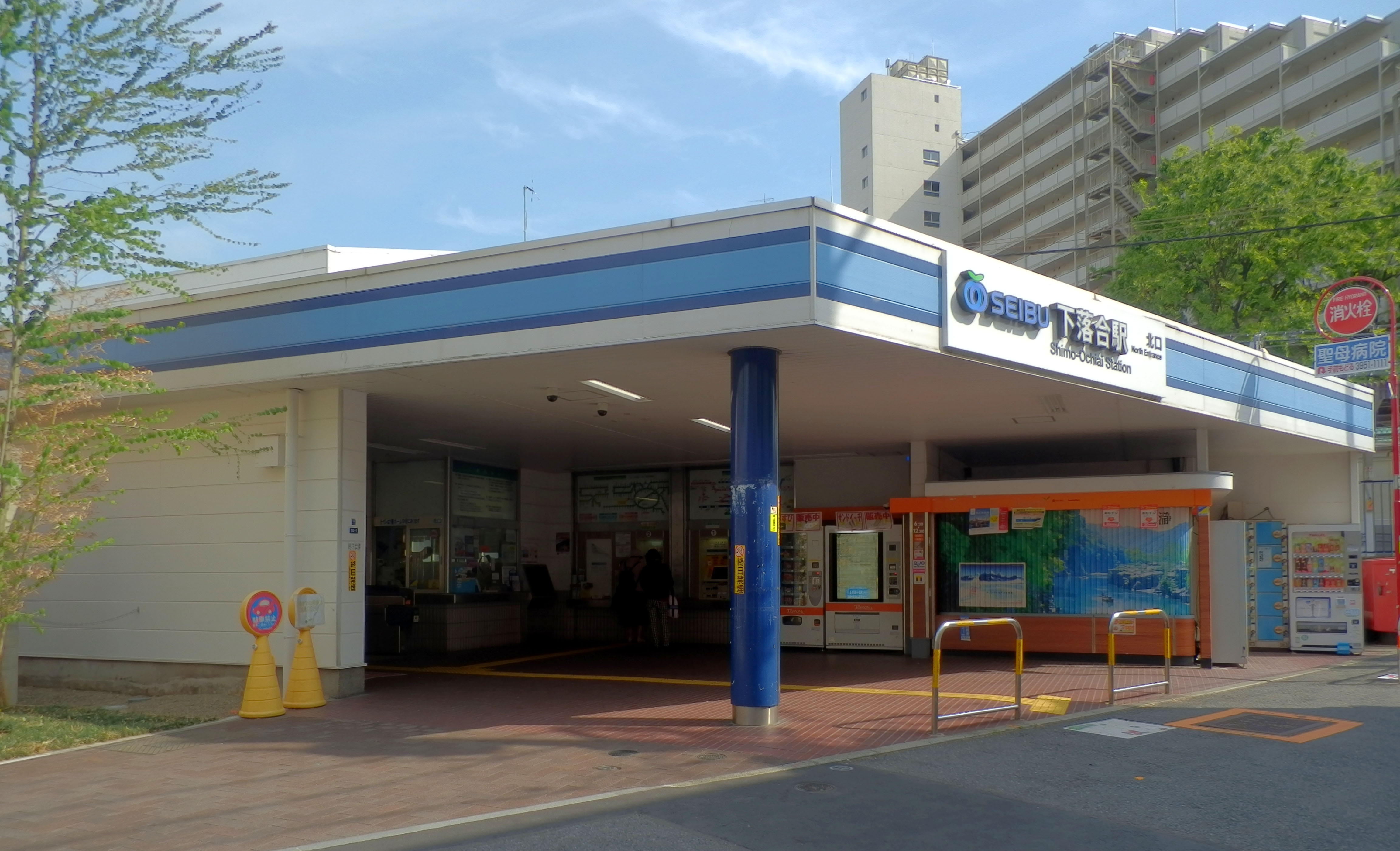 Shimo-Ochiai station (Seibu Shinjuku Line in Tokyo, Japan) north entrance